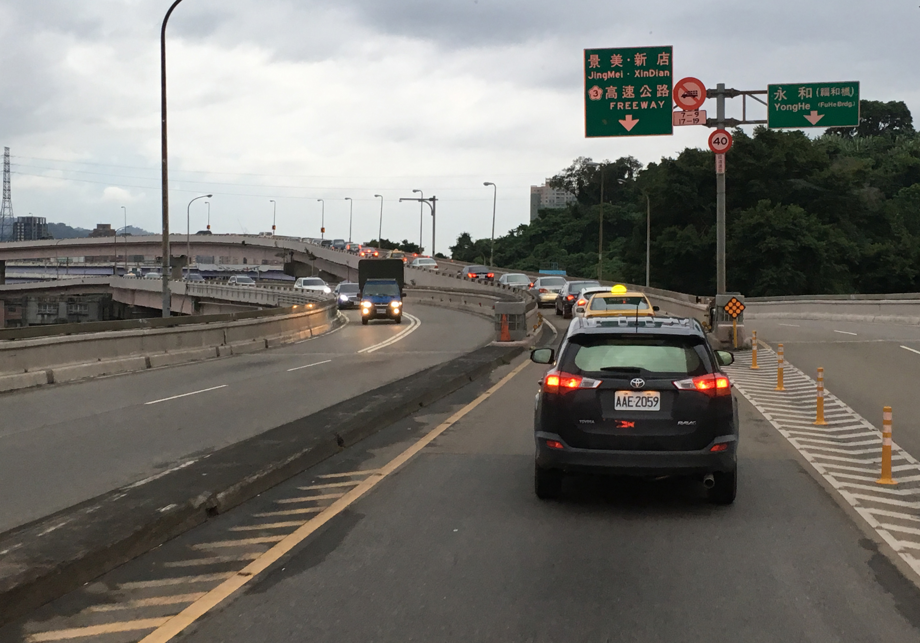 Southern end of Keelung Elevated Road in Taipei, Taiwan